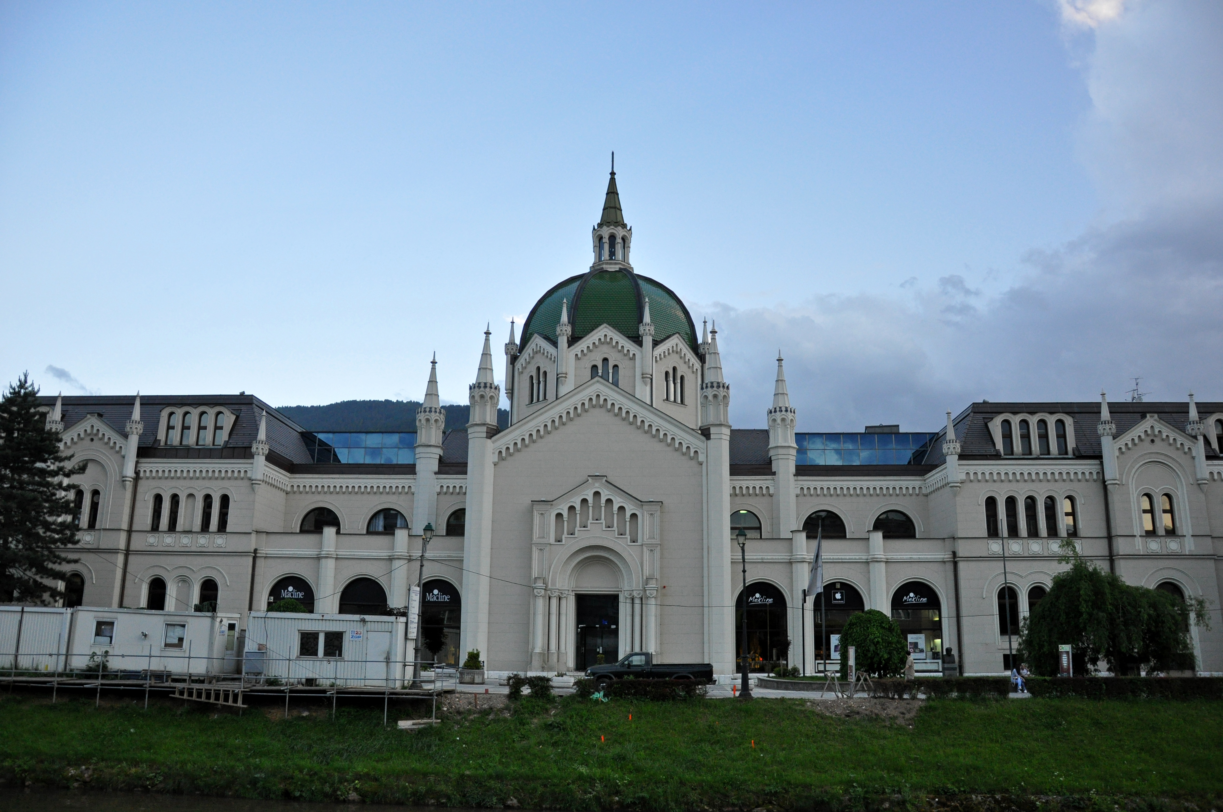 It's part of the University of Sarajevo.